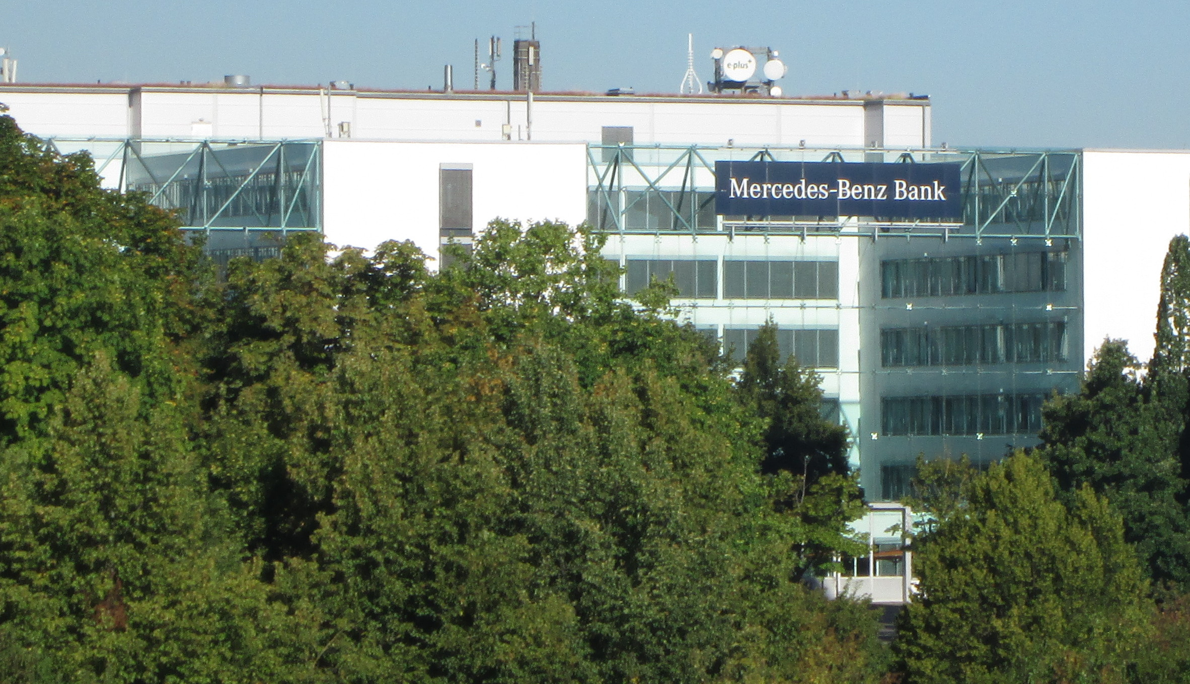 Headquarters of Mercedes-Benz Bank in Stuttgart, Siemensstraße